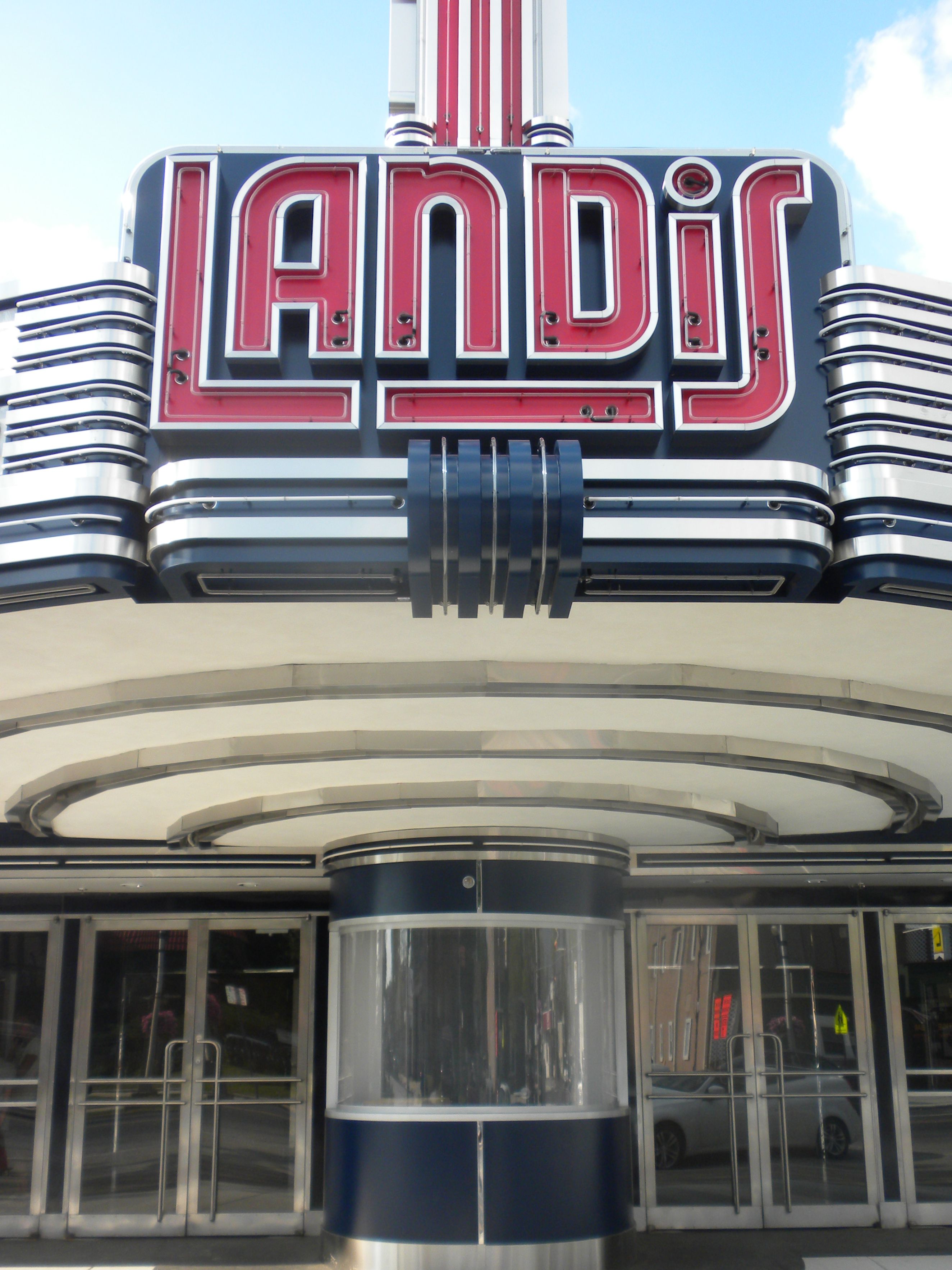 Marquee of the Landis Theatre-Mori Brothers Building on the NRHP since November 22, 2000. At 830-834 Landis Ave., Vineland, Cumberland County, New Jersey. Recently renovated.